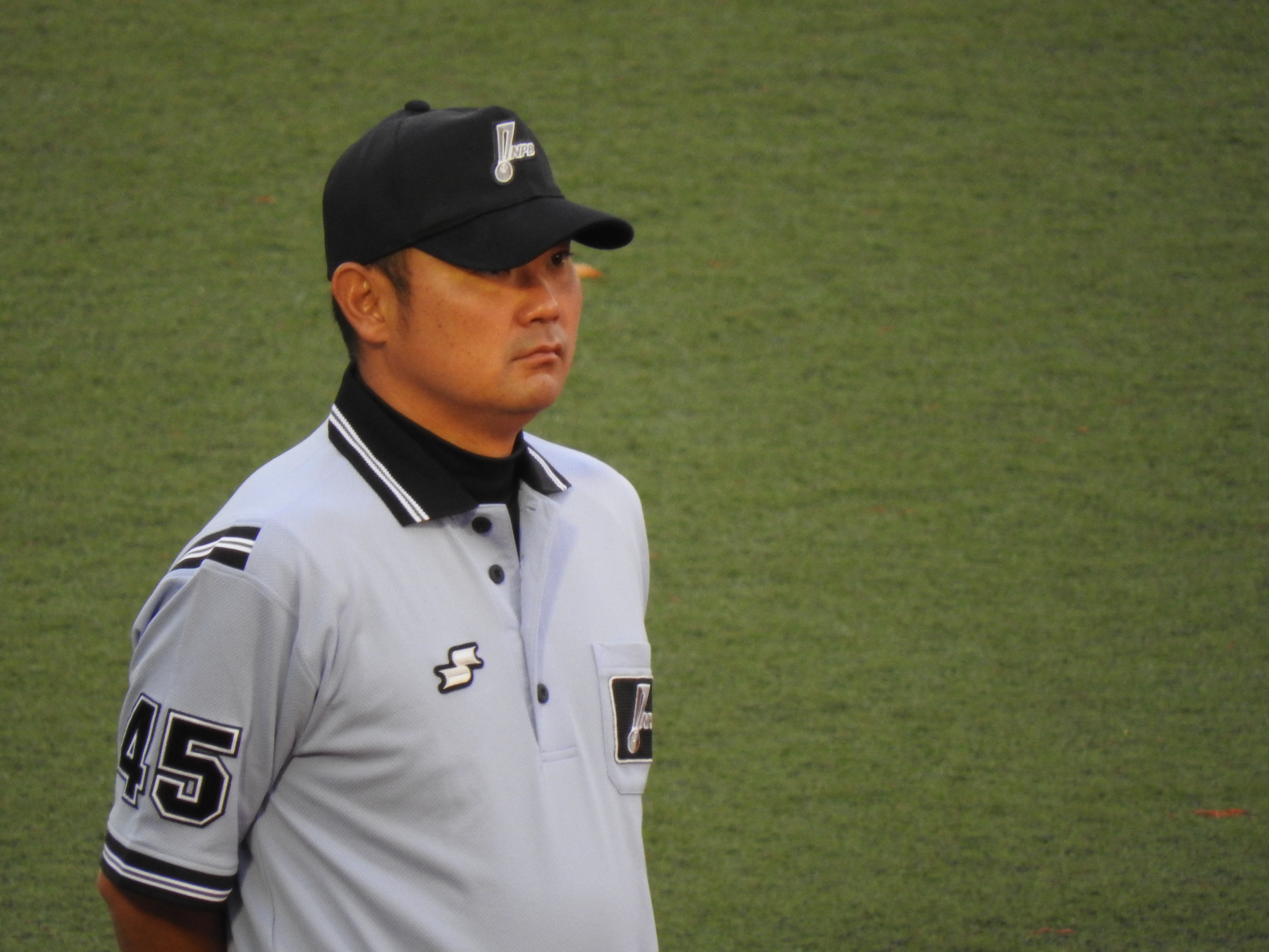 umpire of NPB.